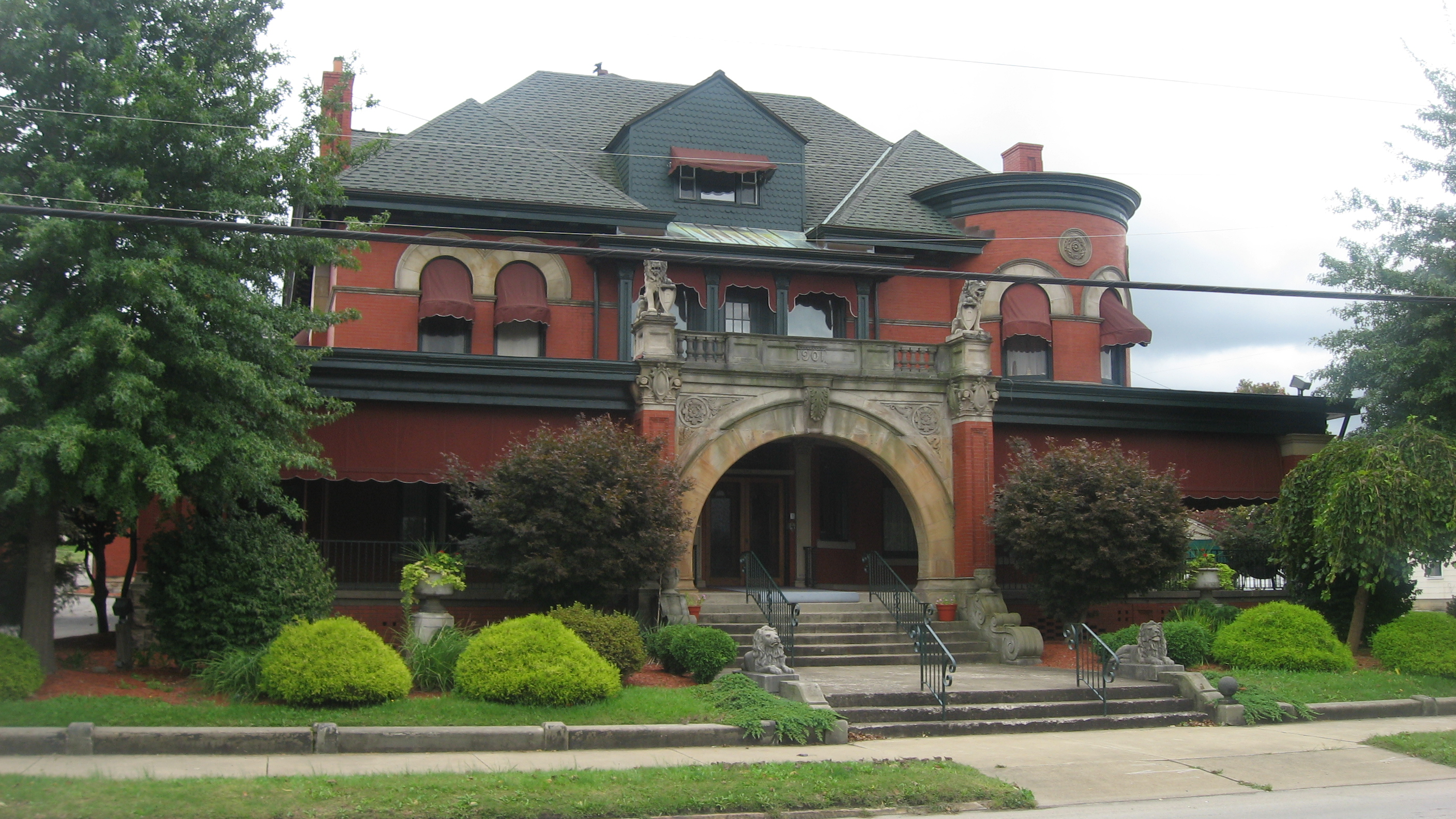 Front of the John S. Douglas House, located at 136 N. Gallatin Avenue in Uniontown, Pennsylvania, United States. Built in 1901, it is listed on the National Register of Historic Places.